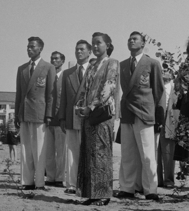 Indonesian Olympics Team at the 1952 Summer Olympics in Helsinki. The team consists of the three males in midground: Maram Sudarmodjo (high jump). Habib Suharko (200 m swimming crawl swim), Thio Ging Hwie (weightlifting). The female in foreground is not part of the team and unnamed in the source.